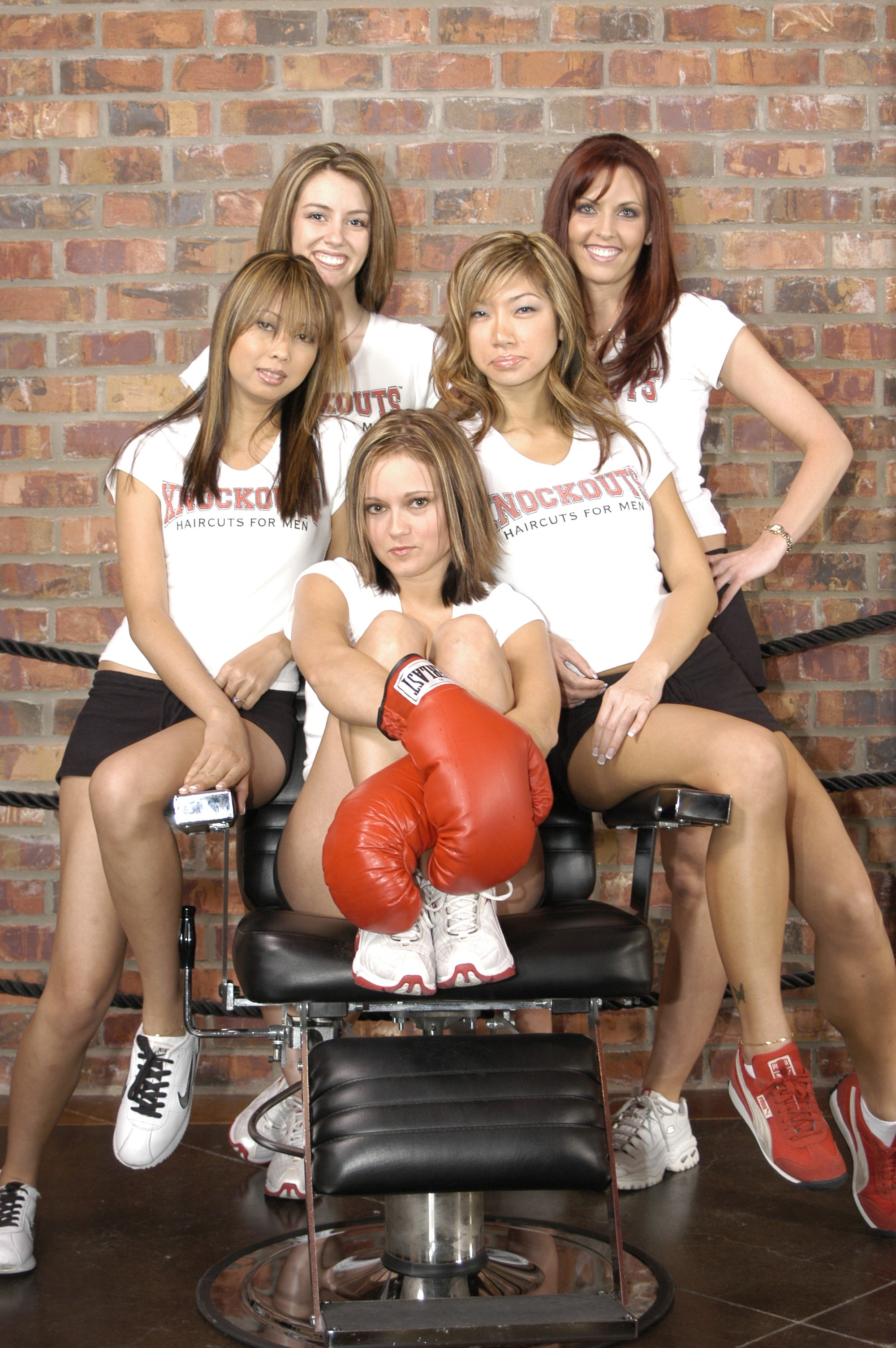 Knockouts